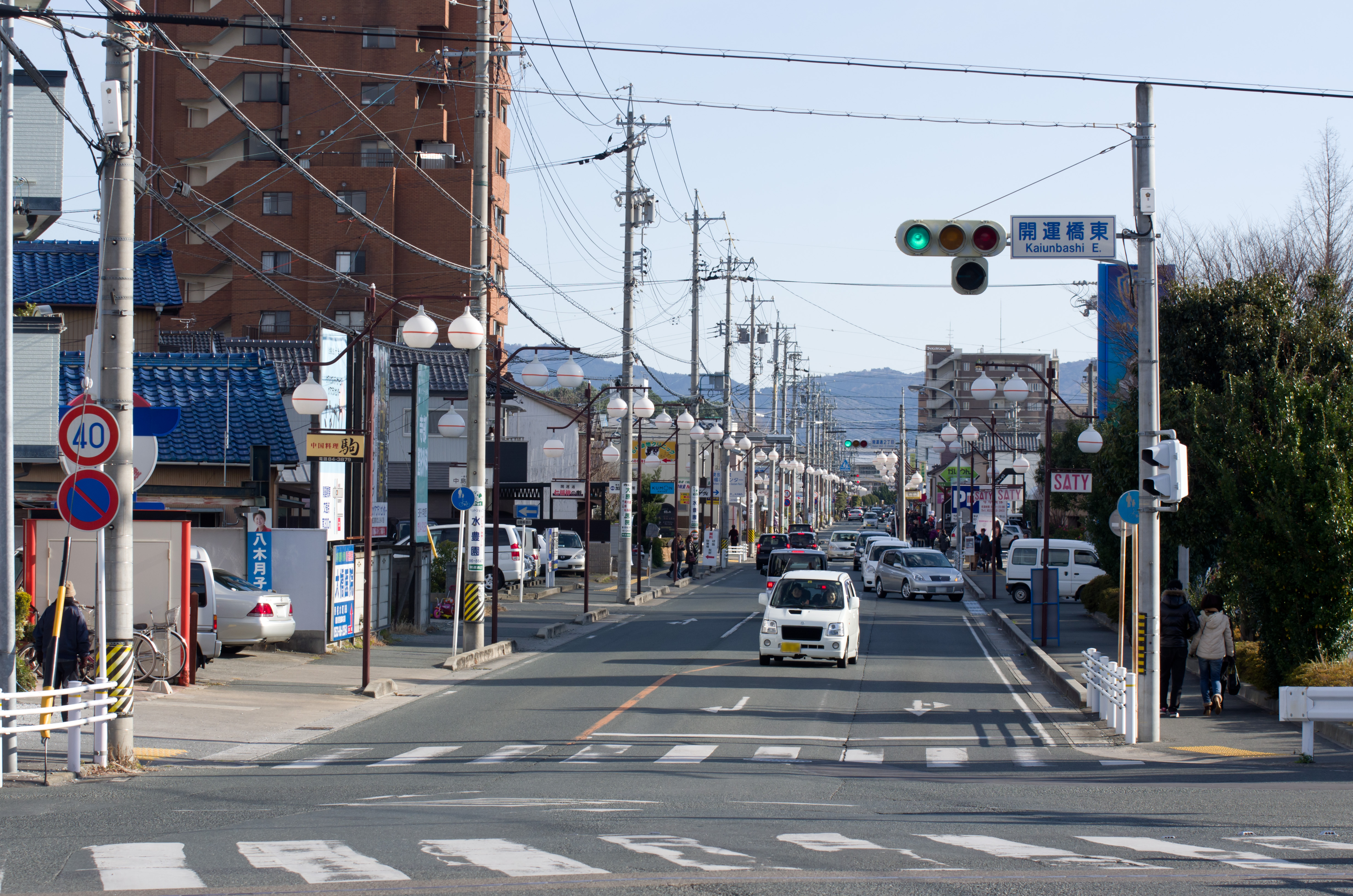 Kaiun-dori St.(West) in Toyokawa, Aichi, Japan.